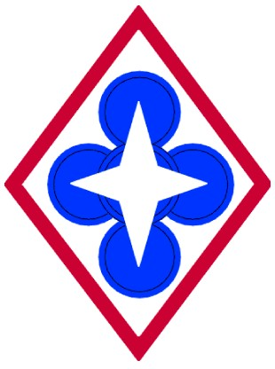 Combined Arms Support Command Shoulder Sleeve Insignia